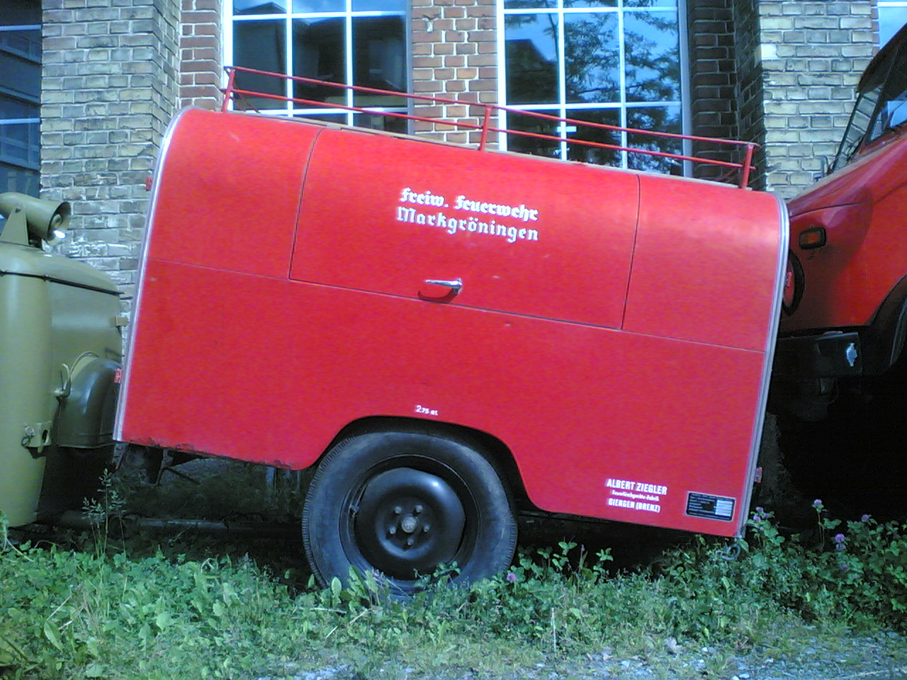 Portable Fire Pump Trailer